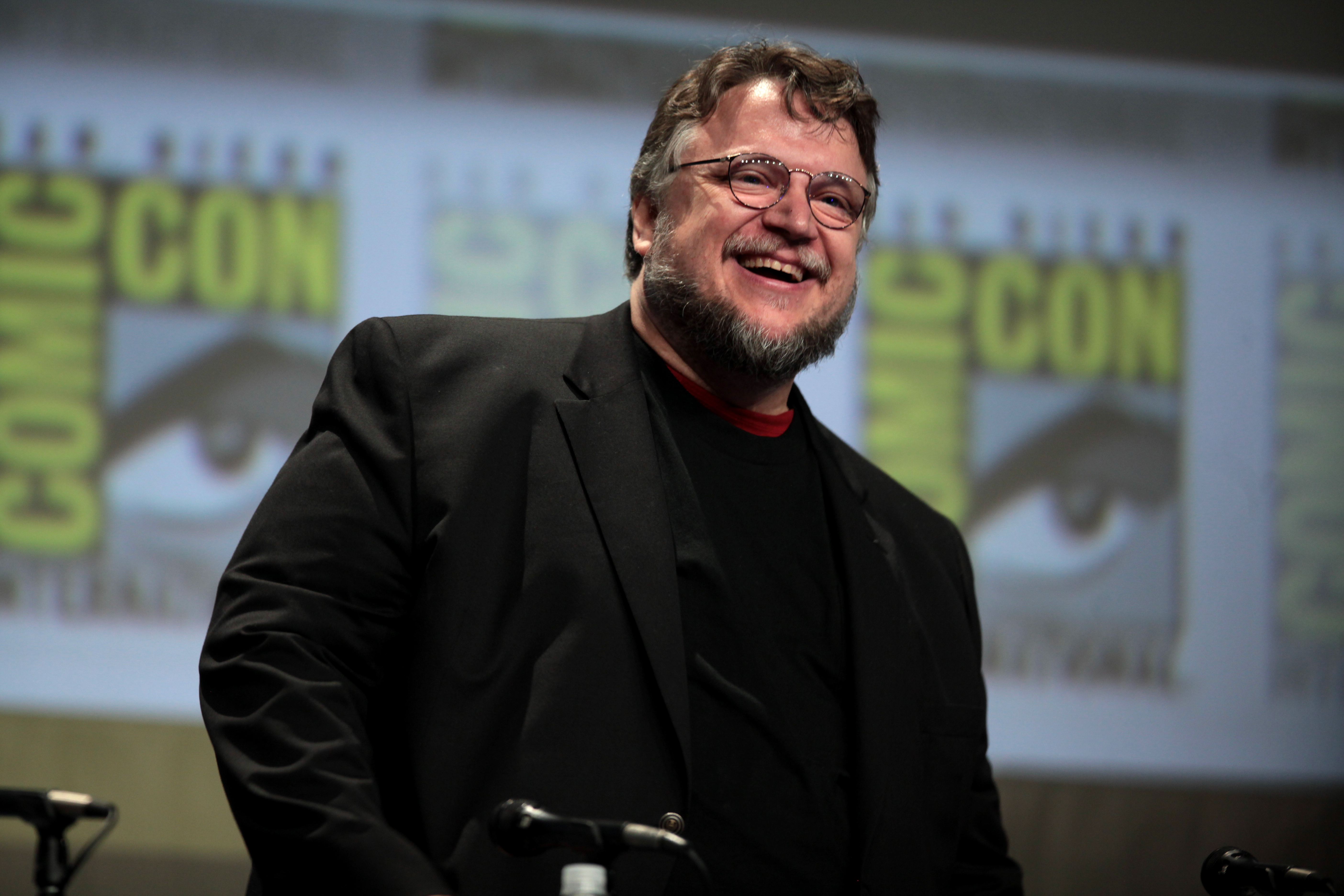 Guillermo del Toro speaking at the 2014 San Diego Comic Con International, for "Crimson Peak", at the San Diego Convention Center in San Diego, California on July 26, 2014. Photo by Gage Skidmore